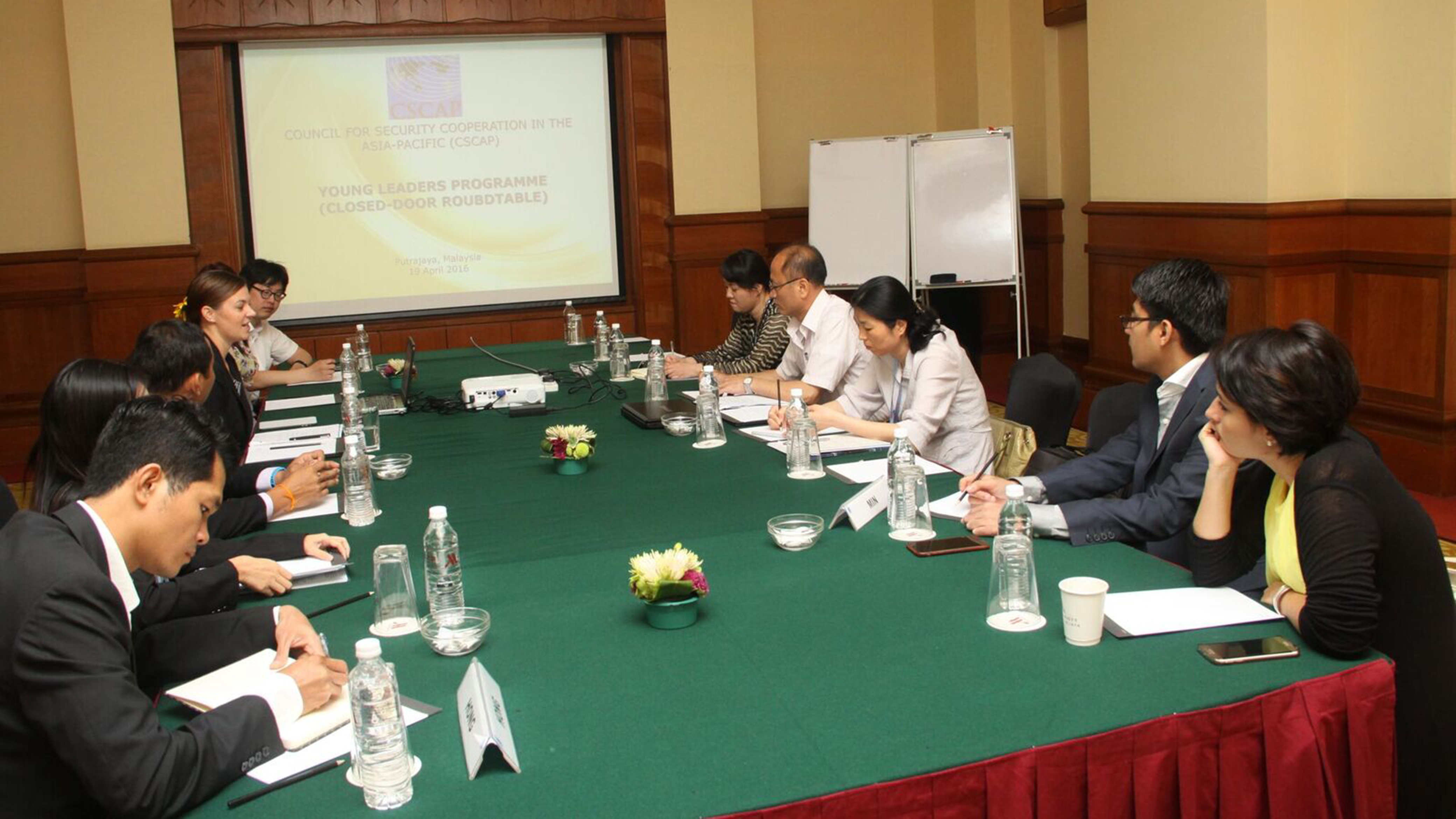 Select Pacific Forum Young Leaders chat with their junior officials from North Korea